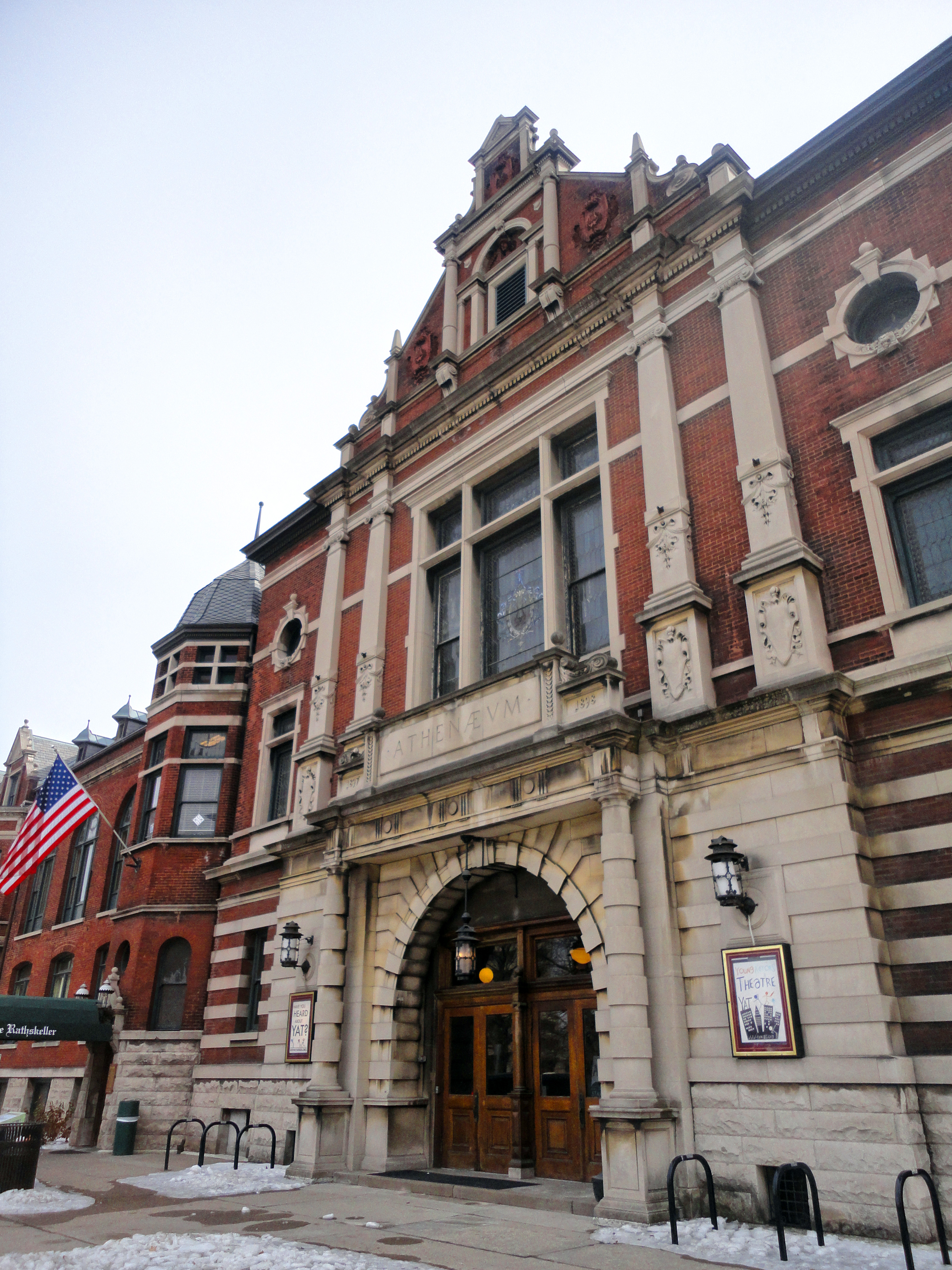 The photograph was captured at the main entrance to the Athenaeum at E. Michigan St. and Massachusetts Ave. in Indianapolis, Indiana, USA. The building was completed in 1893.